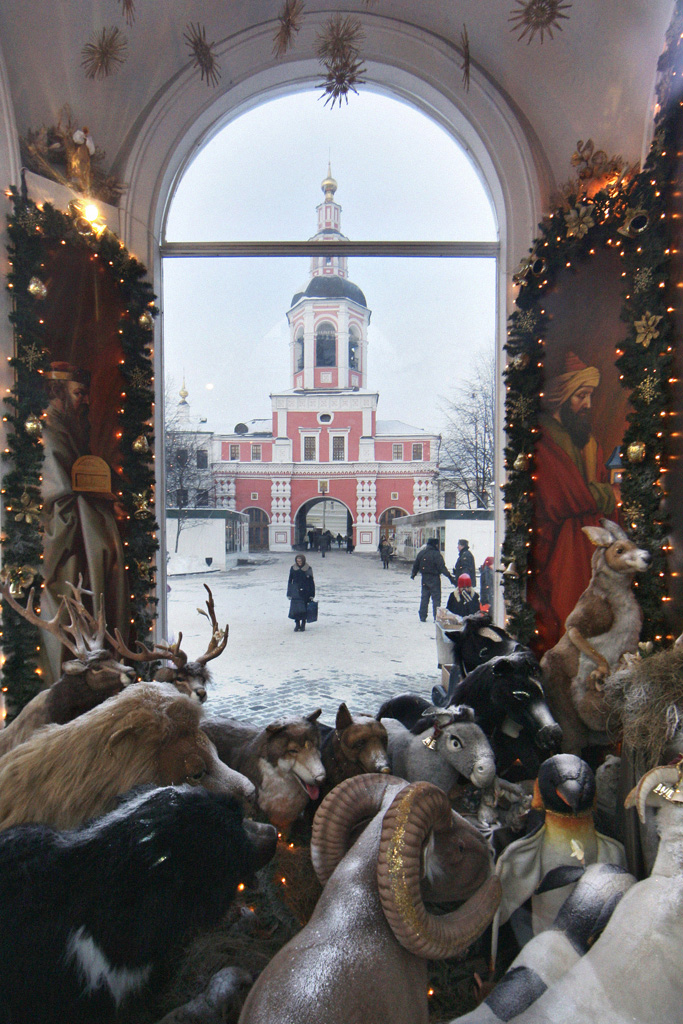 “Christmas Creche at Holy Danilov Monastery”. At the Christmas Creche of the Holy Danilov Monastery.